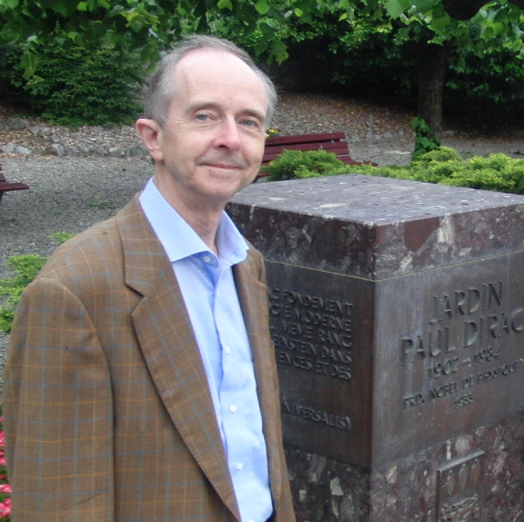 Berndt Müller in front of Paul Dirac's commemorative stone placed in a little garden with in Saint-Maurice, the town of origin of Dirac's forefathers in Valais, Switzerland.